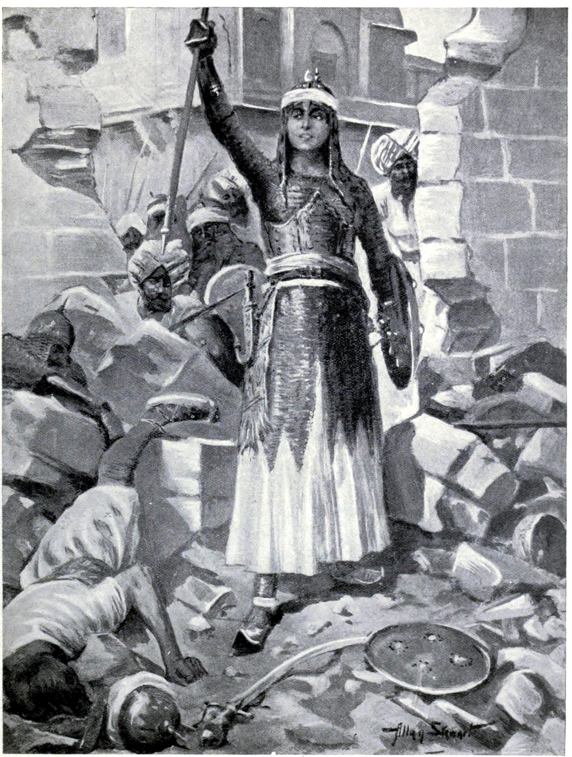 Princess Chand Bibi defends Ahmadnagar 1595. From Hutchinson's story of the nations, containing the Egyptians, the Chinese, India, the Babylonian nation, the Hittites, the Assyrians, the Phoenicians and the Carthaginians, the Phrygians, the Lydians, and other nations of Asia Minor.